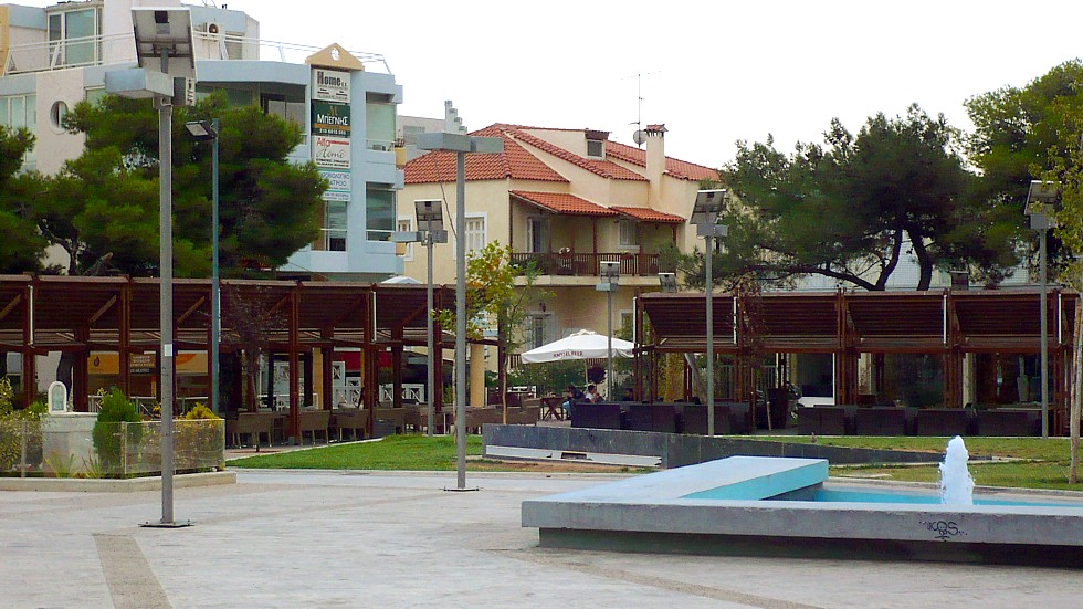 The above picture depicts the central Analipseos Square (Jesus Christ Ascension Square) of the Vrilissia Municipality, at the northeastern part of Athens City in Greece.